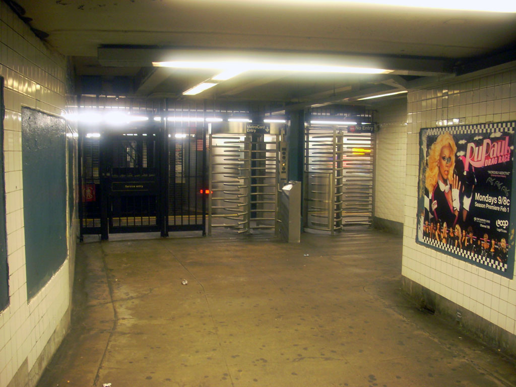 New Exit Gate at 63rd Drive